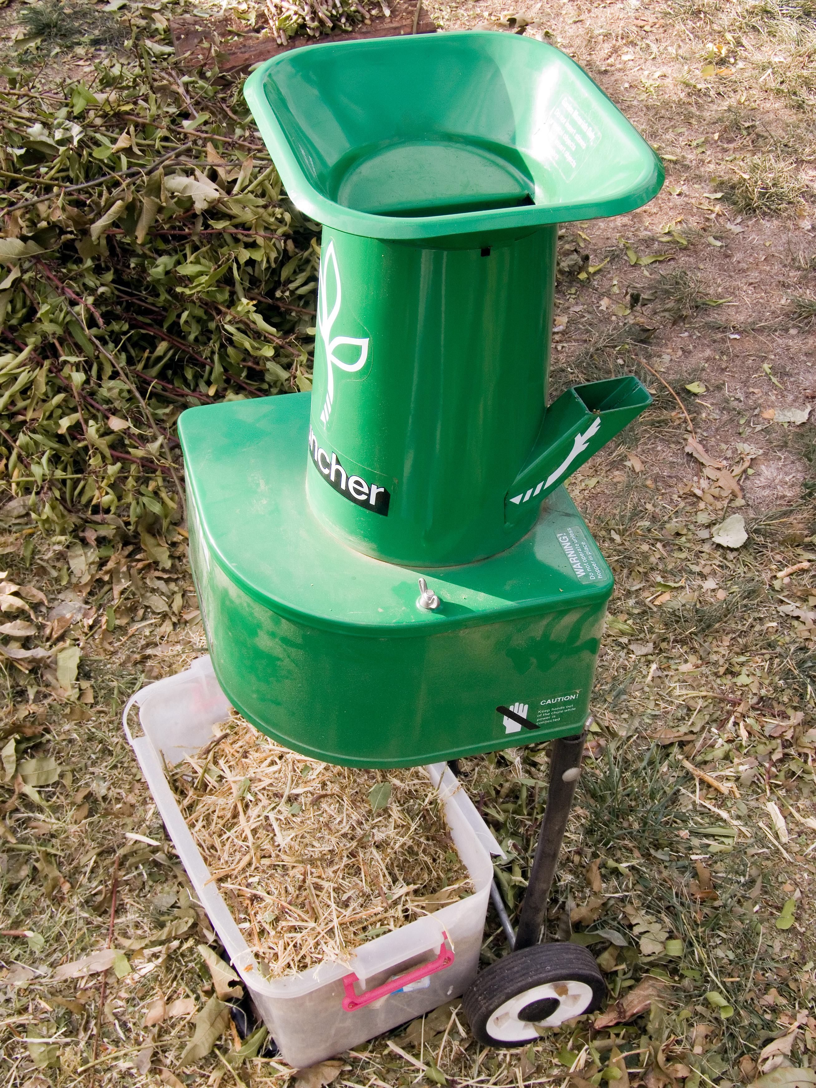 A small electric mulcher for home use on small trimmings. Greens to be cut can be seen in the background, while the mulch is visible in the bin.